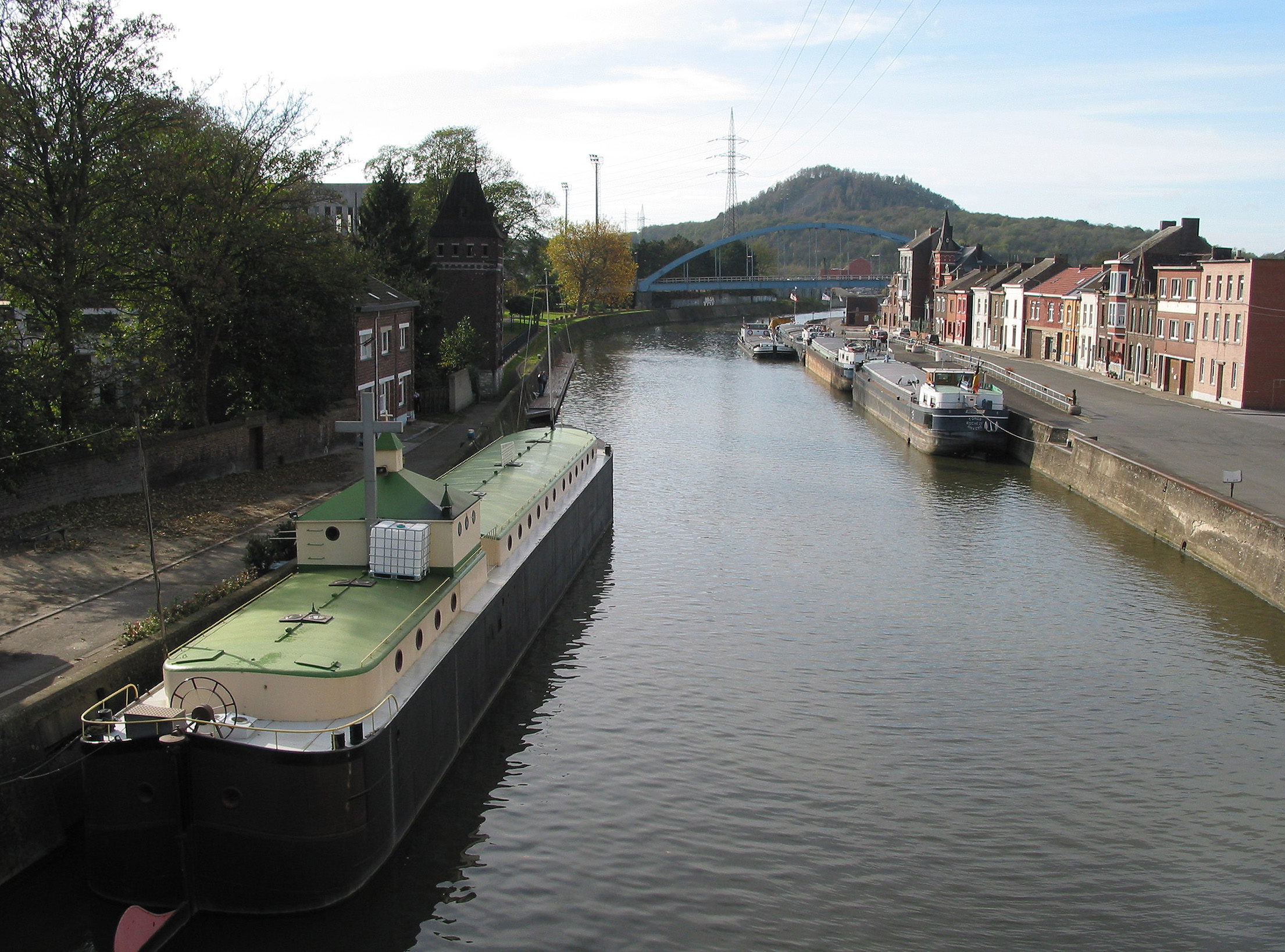 Marchienne-au-Pont (Belgium), the chapel-boat commonly called the boatmen church